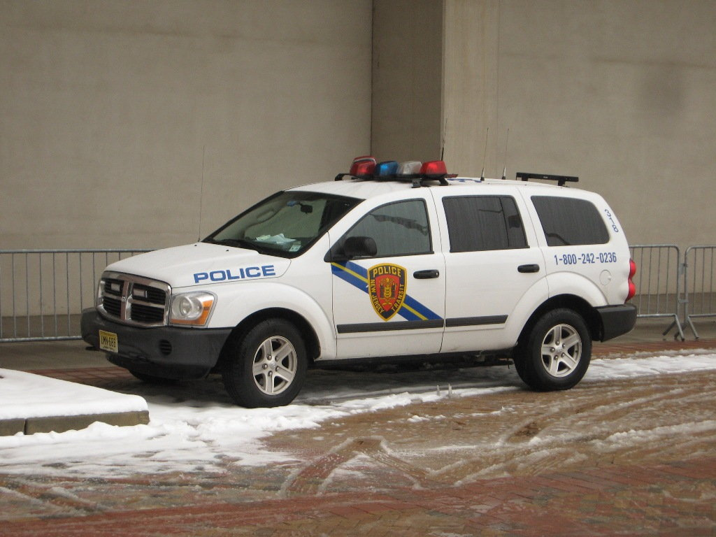 NJ Transit Police vehicle #318, a Dodge Durango, at Secaucus Junction.